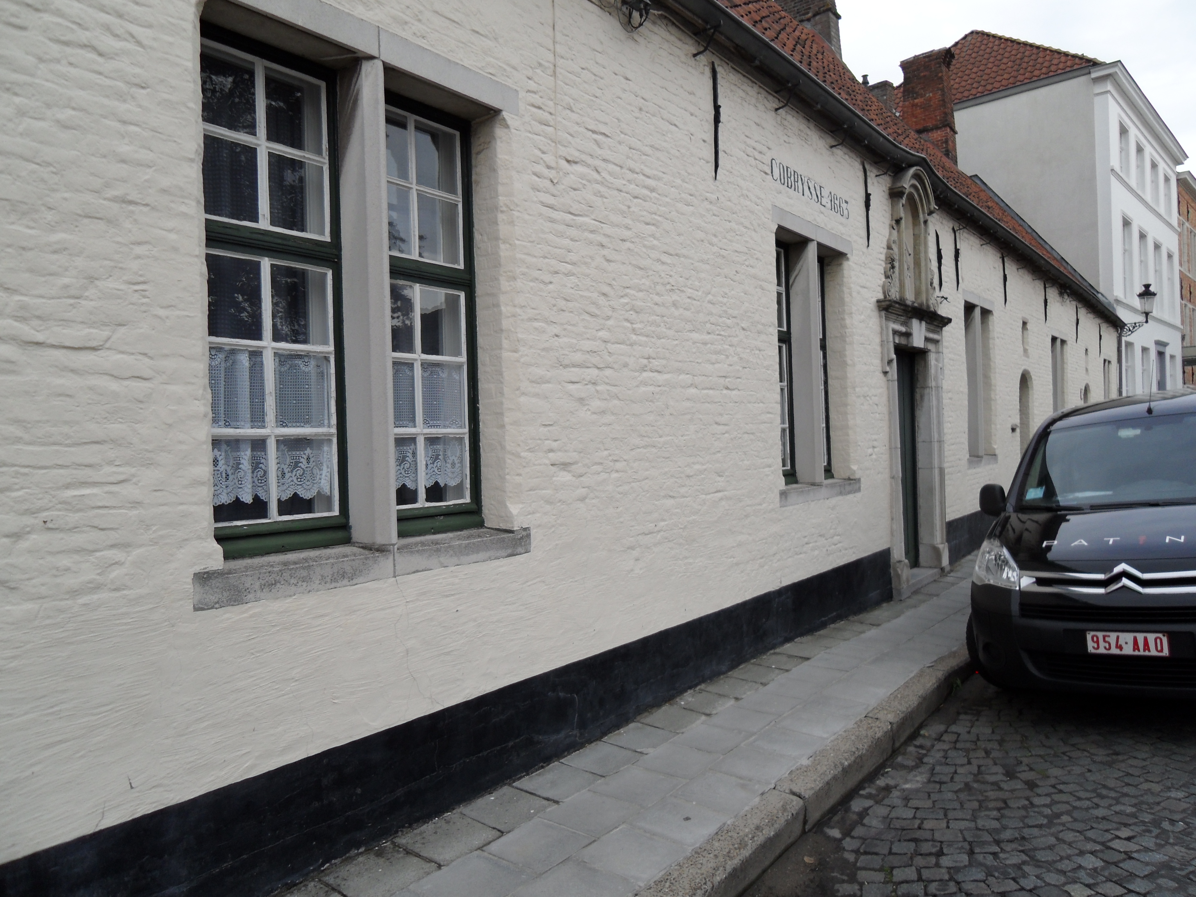 Godshuis Cobrysse in Bruges